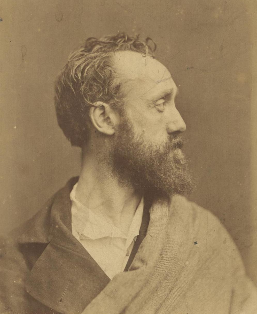 A portrait from the Welsh Portrait Collection at the National Library of Wales. Depicted person: John Deffett Francis – British artist and collector